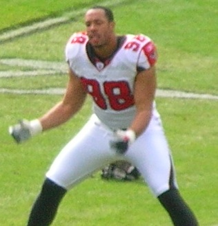 The Atlanta Falcons doing stretches on the field prior to a road game against the Oakland Raiders. The Falcons won 24-0.